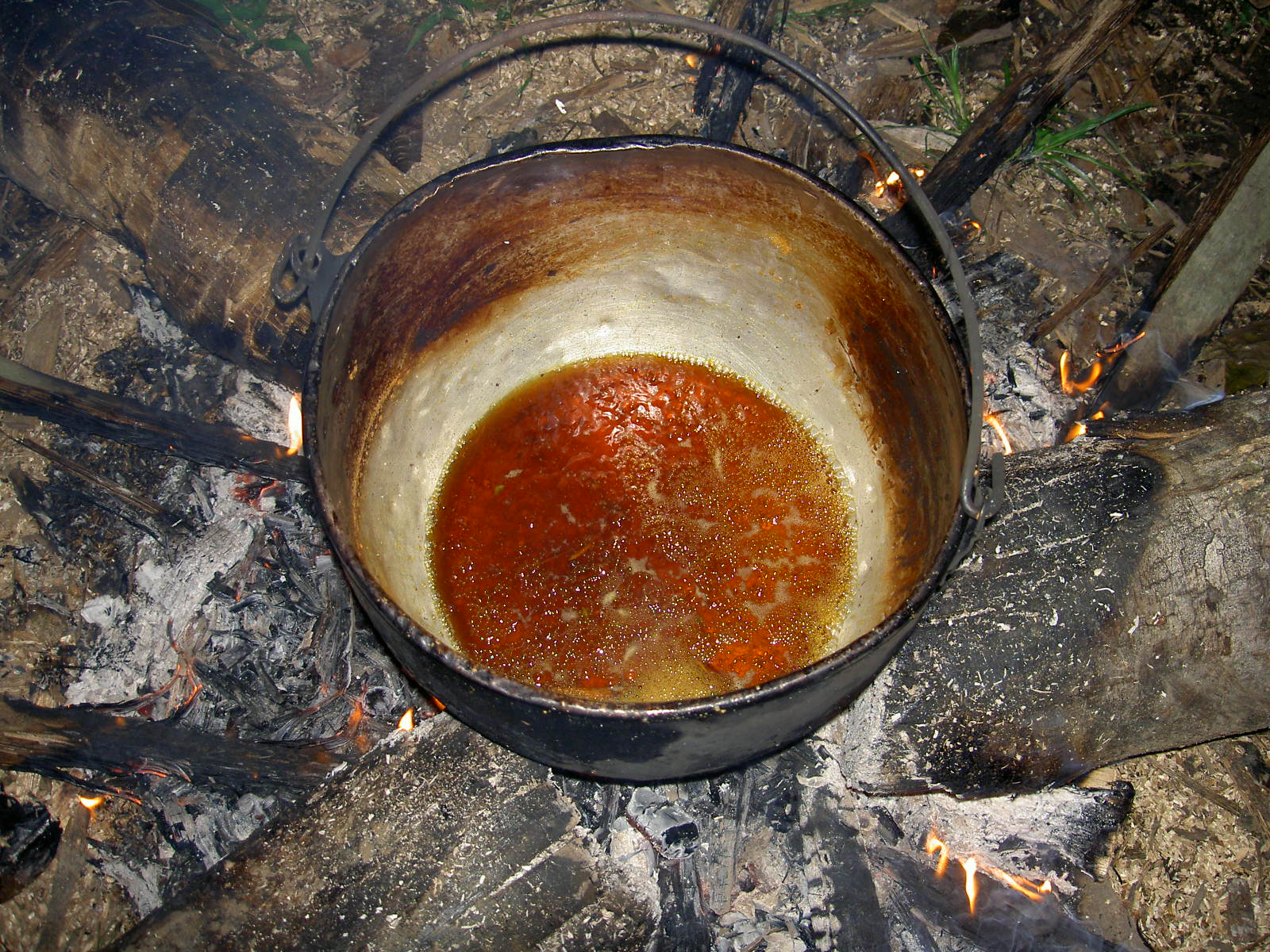 Preparation of Ayahuasca, province of Pastaza, Ecuador